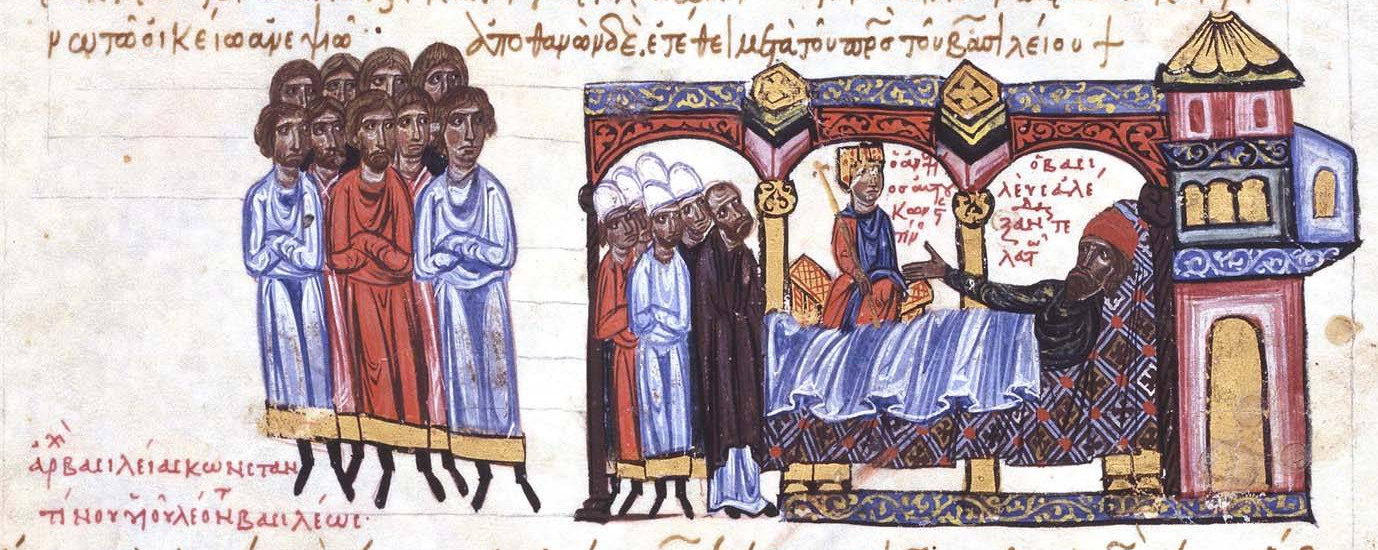 Emperor Alexander, on his deathbed, passes imperial power to his nephew Constantine VII Porphyrogennetos. 'Madrid Skylitzes Fol. 118r